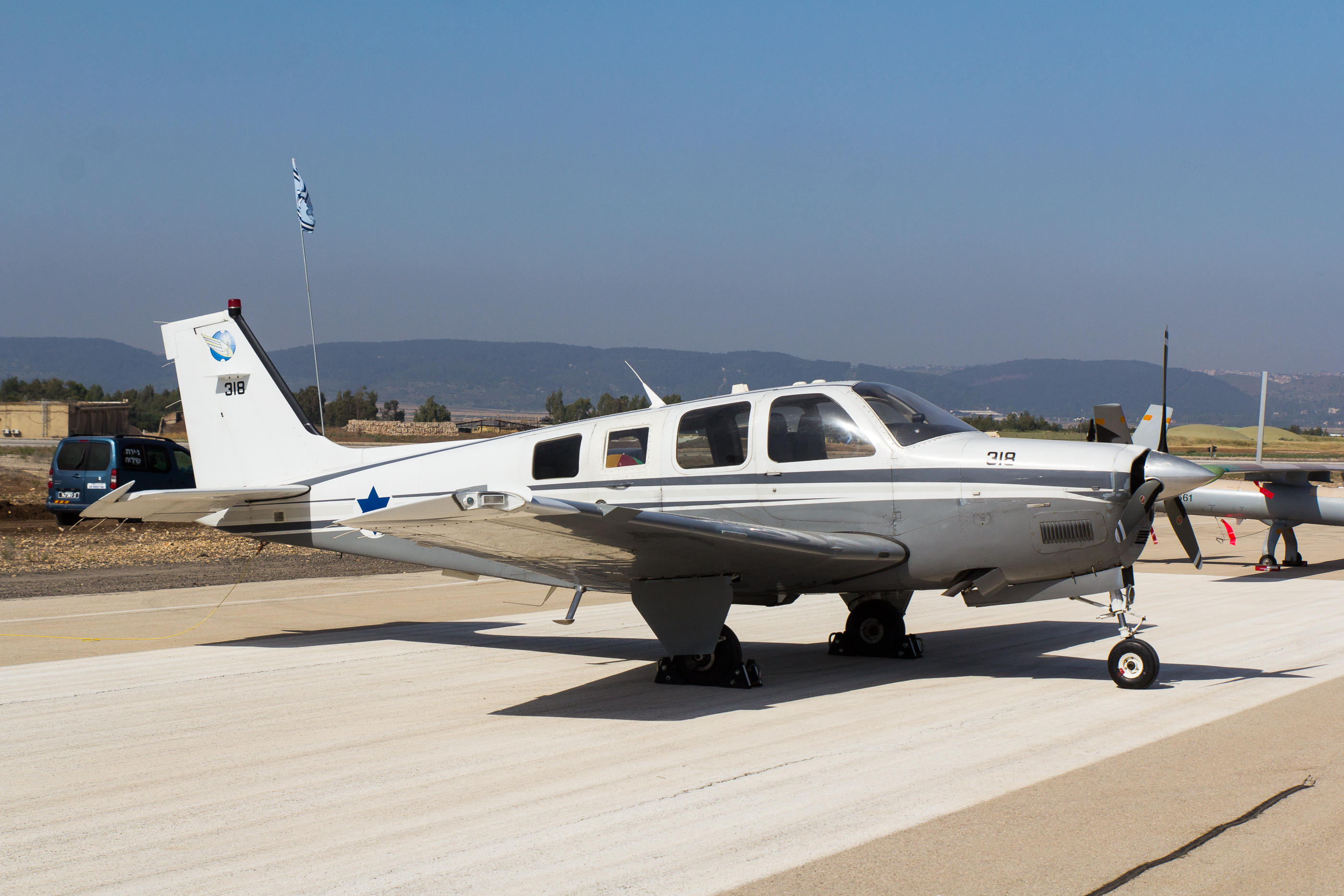 135 Squadron Beechcraft A36 Bonanza at the Israeli Air Force exhibition at Ramat David AFB on Israel's 69th Independence Day